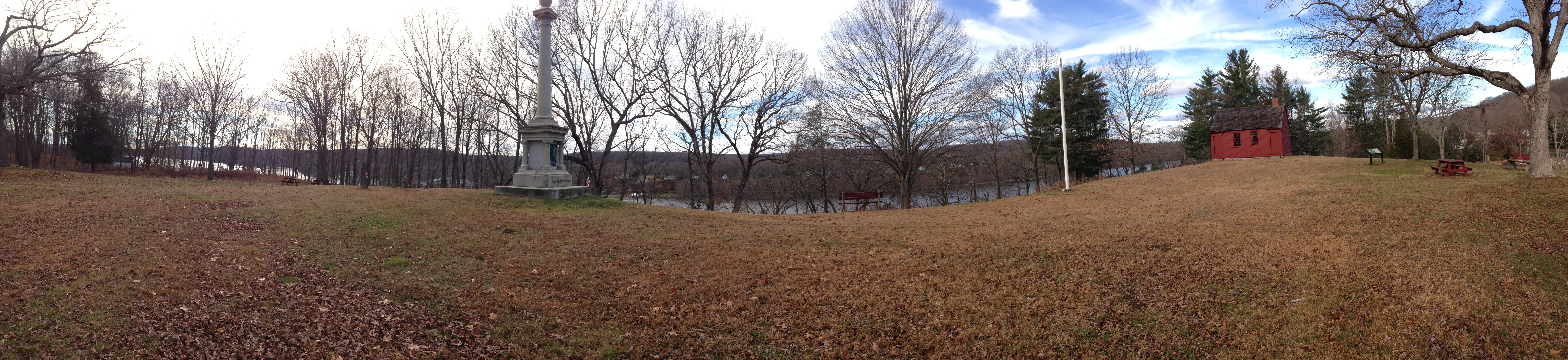 A panorama view of the Nathan Hale Schoolhouse in East Haddam, CT